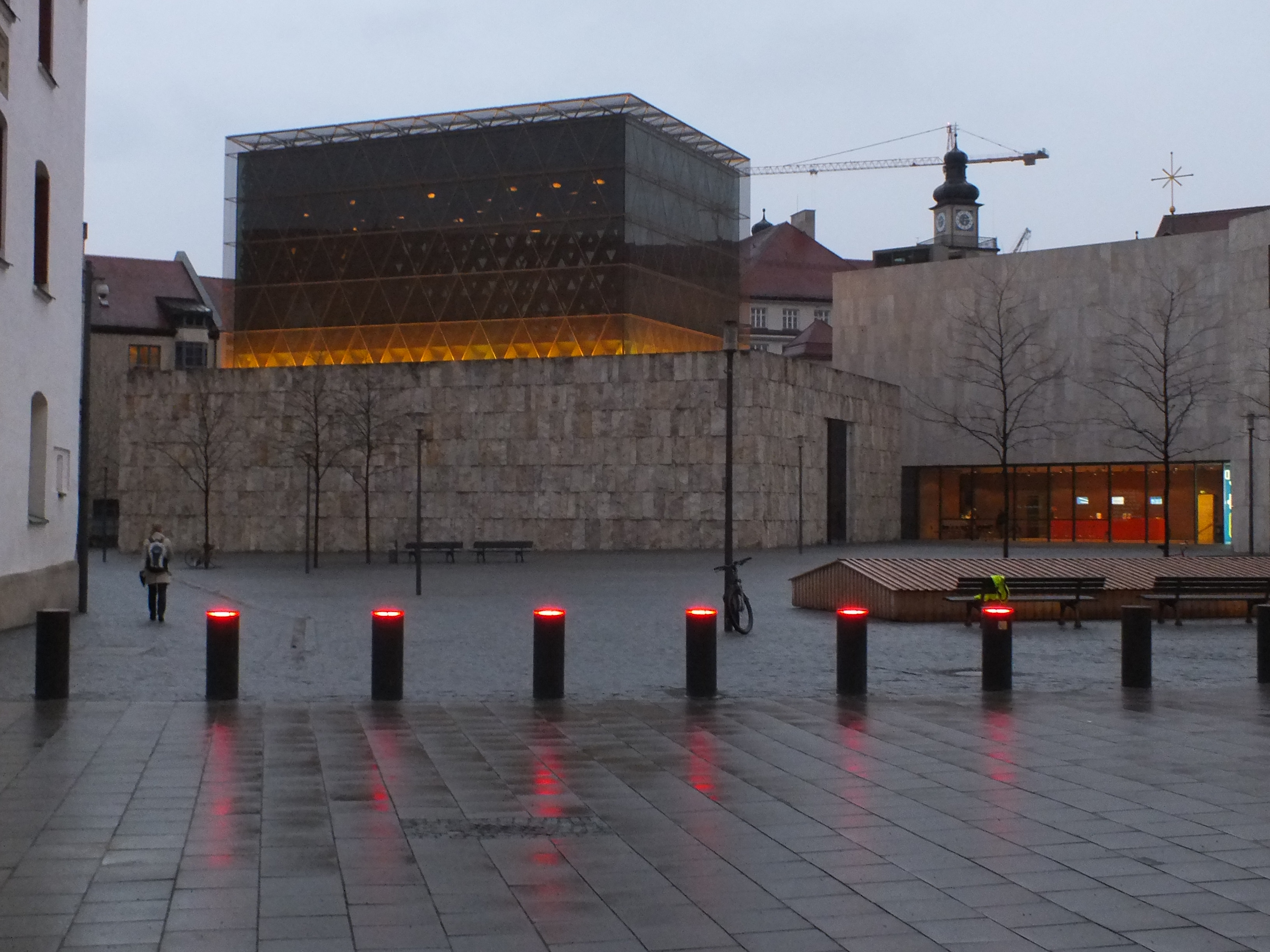 correct datetime (EXIF) should be: 2012-03-08 18:11:38 left in the foreground: Ohel Jakob synagogue right in the background: jewish museum